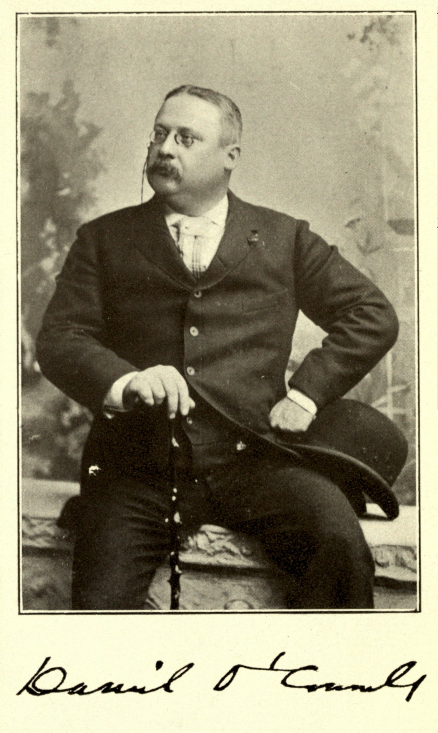 Portrait photograph of Dan O'Connell (1849–1899), Irish-born San Francisco-based journalist. Photograph was published posthumously in Songs from Bohemia, a book of O'Connell's short works.